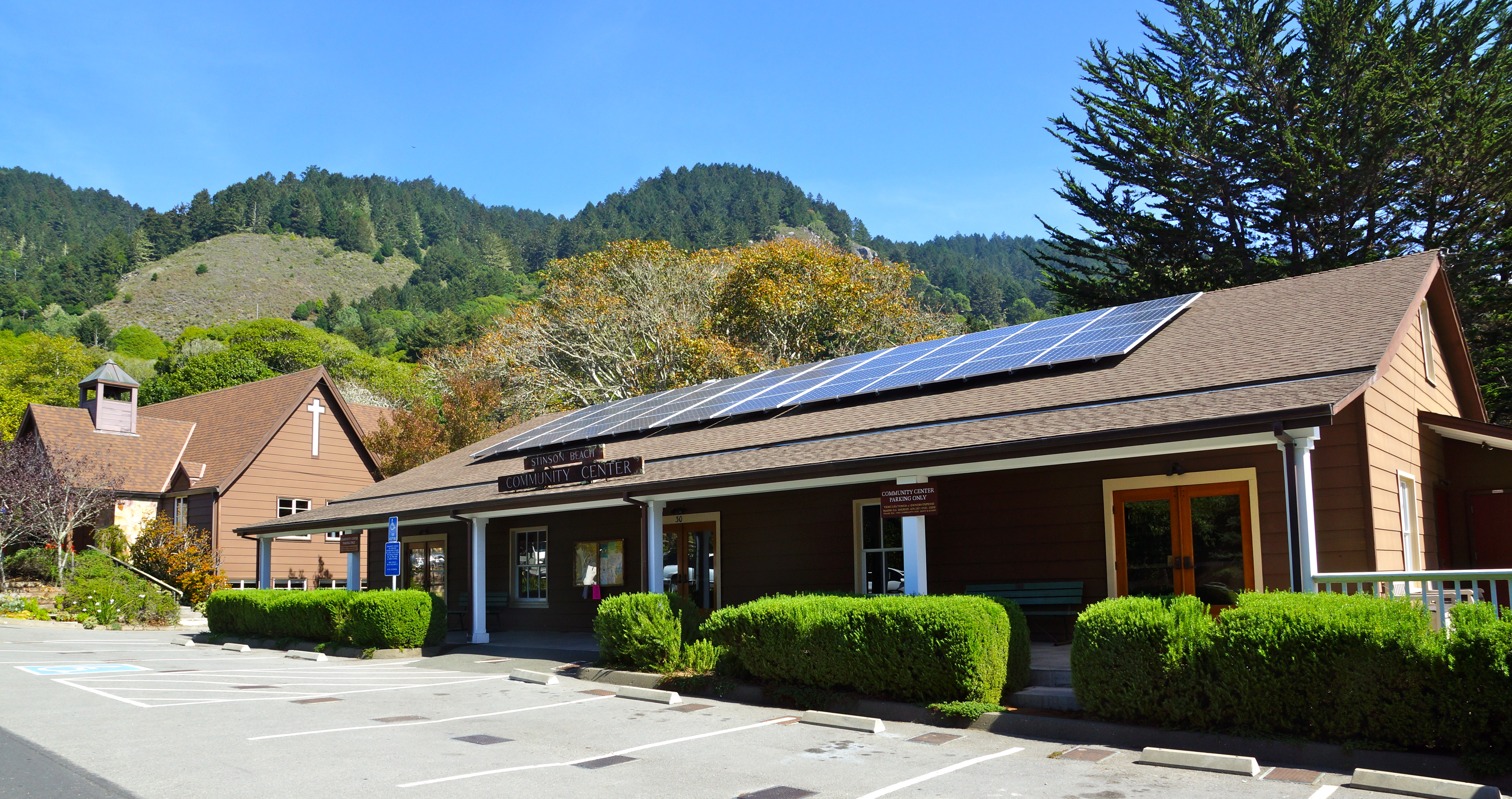 California (Stinson Beach), United States: Church and community Center